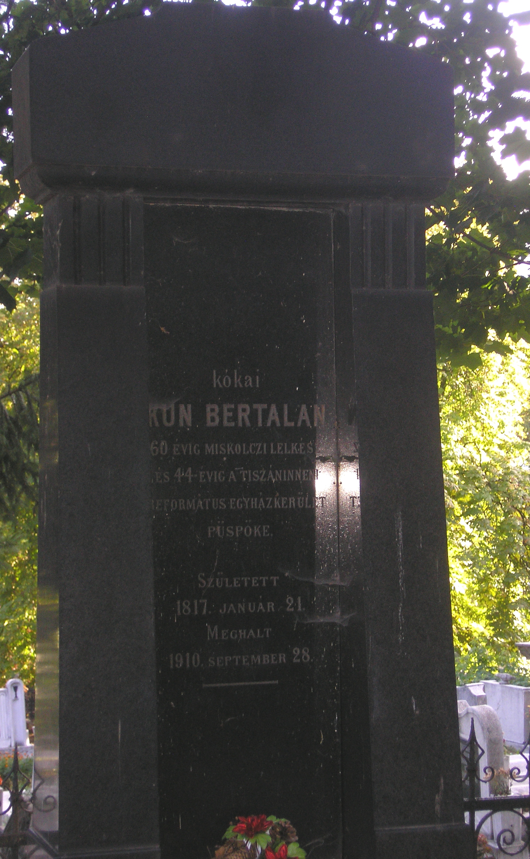 Tomb of Bertalan Kun in Miskolc